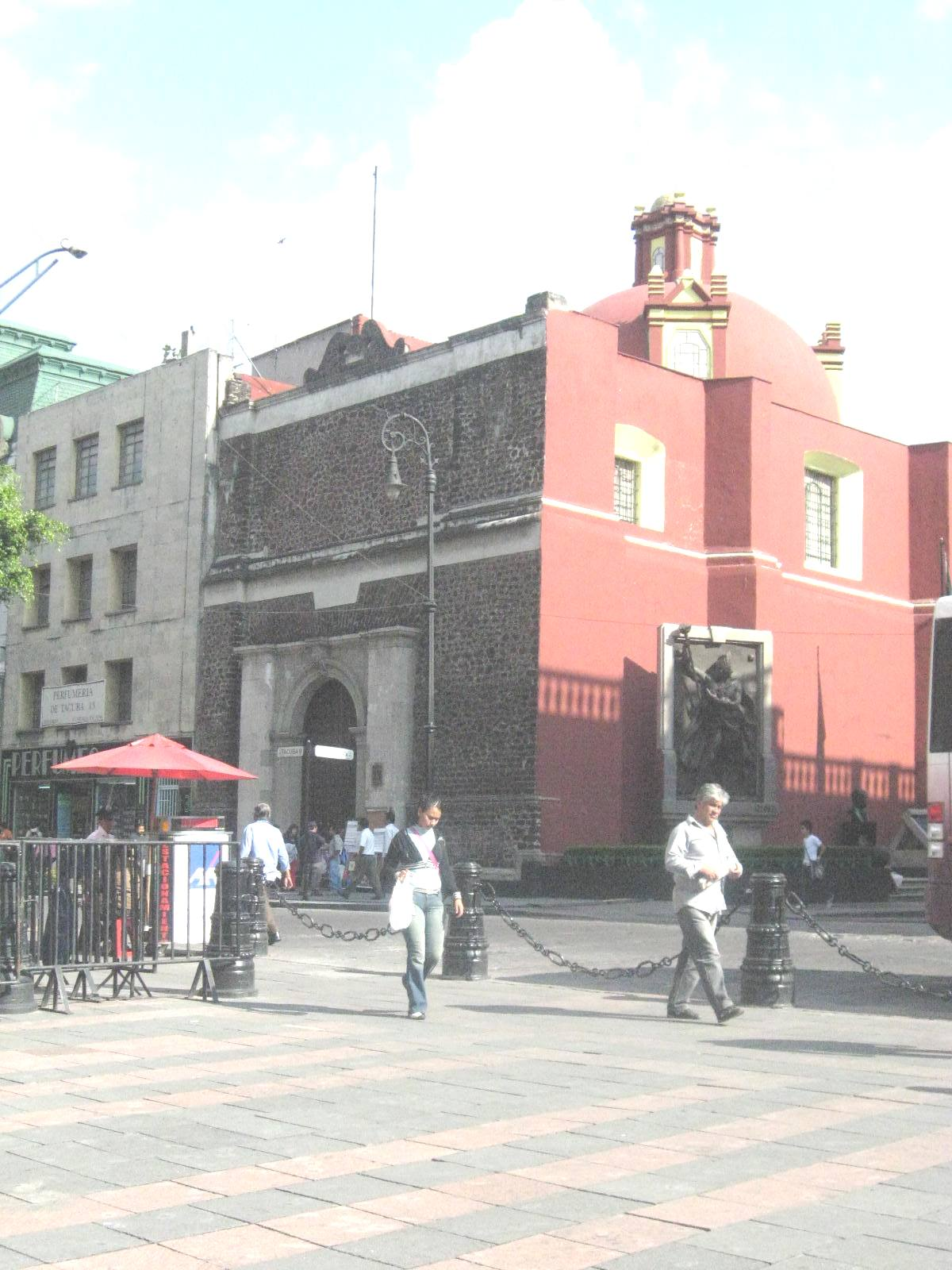 Originally the Bethlemites Hospital, now the Mexican Army Museum located at the corner of Filomeno Mata and Tacuba streets in the Centro of Mexico City